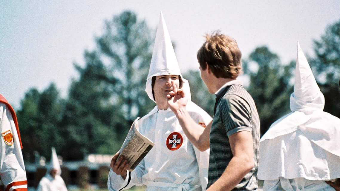 Photographer's description: "1986, Auburn, Alabama, I was on my way to Atlanta with my girlfriend and before we got a half block we saw this. This was my corner. This was where I used to walk to get ice cream when I was a little boy, I couldn't believe what I was seeing, I told my girlfriend to pull over and I got out and confronted them, My girlfriend stood up and took this photo through the sunroof. These are my political views. This is America and it is for everybody."